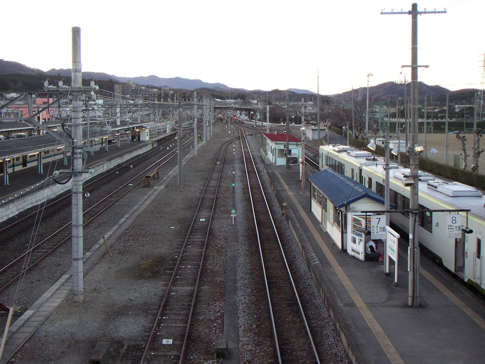 Ogawamachi Station in Saitama, Japan, with the Tobu Tojo Line platforms on the left and the JR Hachiko Line platforms on the right